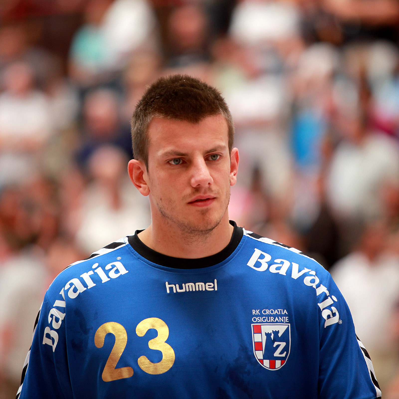 Ljubo Vukić, Croatian handball player, playing for RK Zagreb, on August 22nd, 2009 in Ehingen (Germany), during the Schlecker Cup 2009.